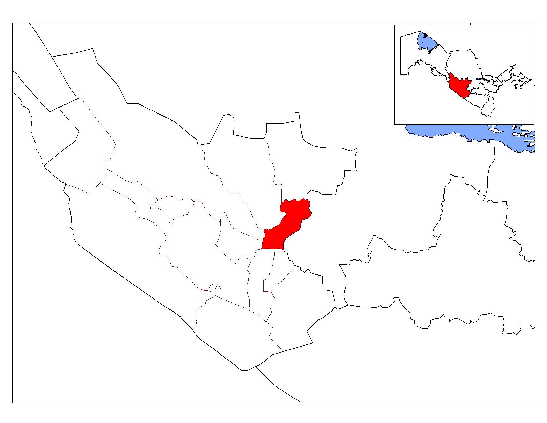 Location map of Vobkent District in Buxoro Province, Uzbekistan